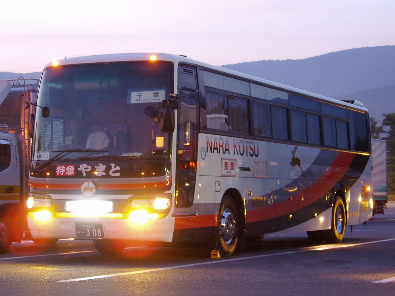 Nara Kotsu 308 "Yamato" Hino KL-RU1FSEA at Ashigara Service Area